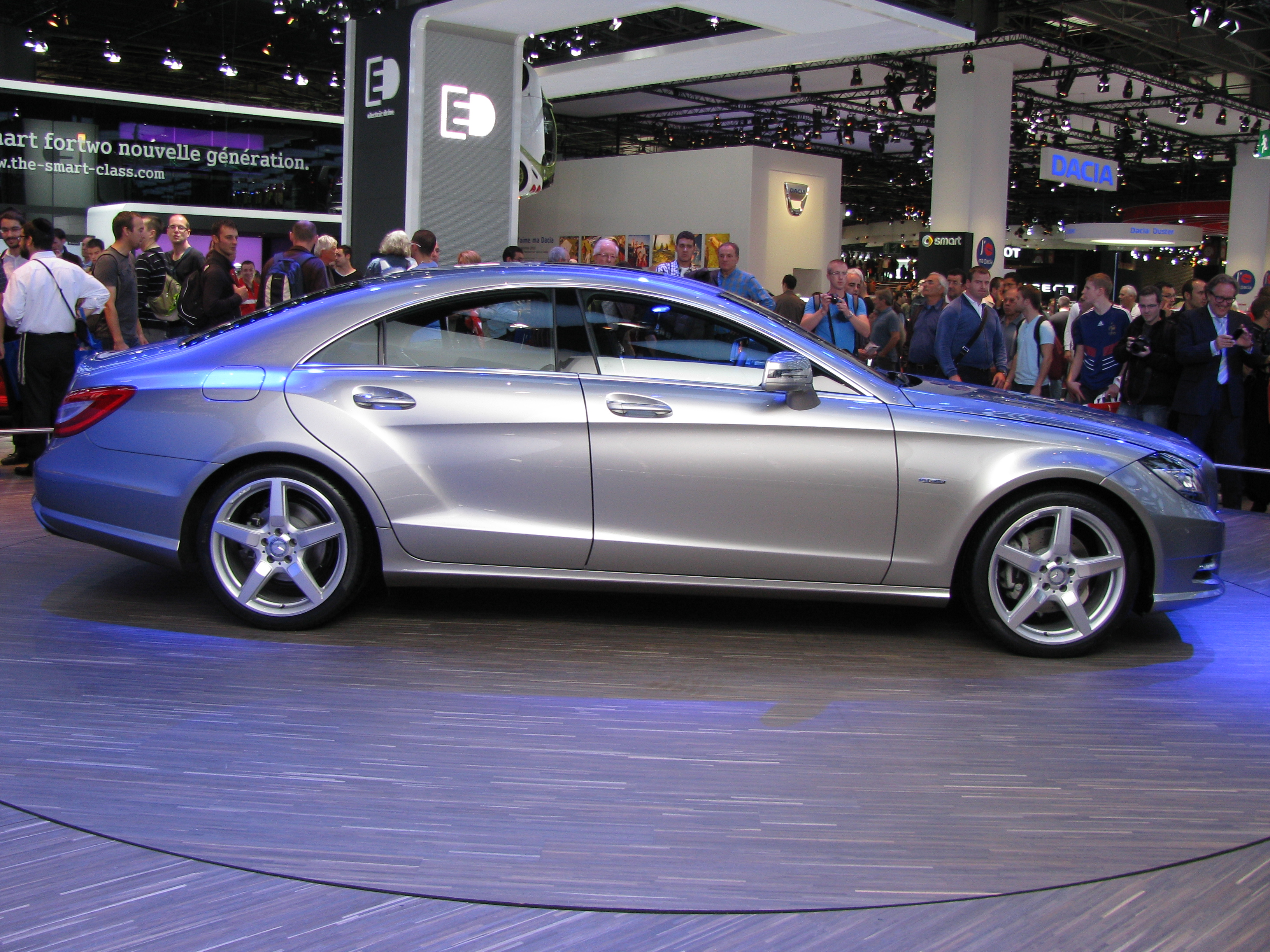 New Mercedes CLS 2nd Generation during the Paris Motorshow 2010.